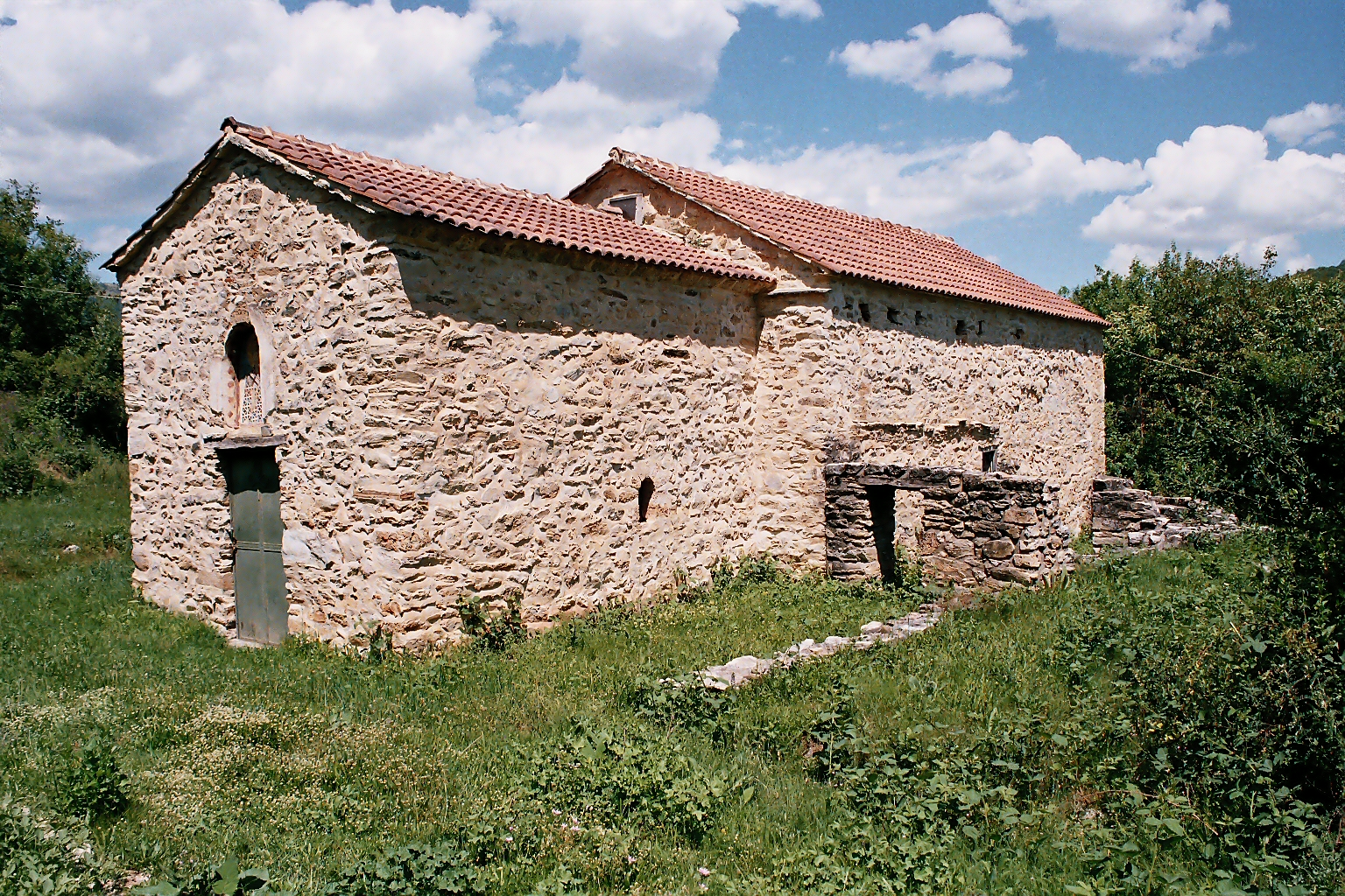 Sv.NIkola_Toplica